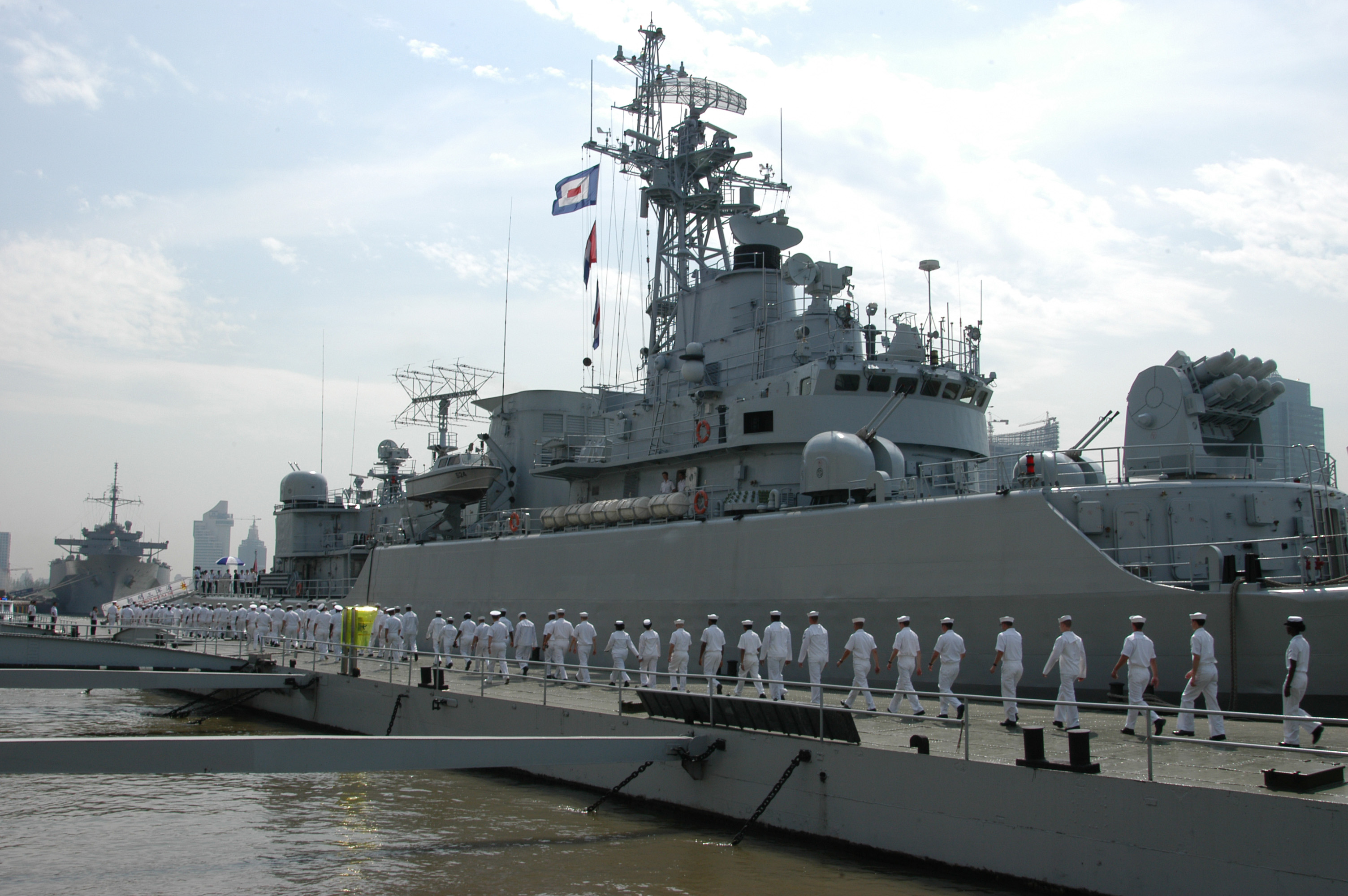 Shanghai Naval Base, China (June 28, 2006) - Sailors assigned to the U.S. Navy's amphibious command ship USS Blue Ridge (LCC 19) board the People's Liberation Army (Navy) frigate Sanming (FFGHM 523), during Blue Ridge's port visit to Shanghai, China. Blue Ridge is the forward deployed 7th Fleet command ship homeported in Yokosuka, Japan, and visited Shanghai to promote friendship and camaraderie between the two Navies. U.S. Navy Photo by Journalist 2nd Class Peter D. Lawlor